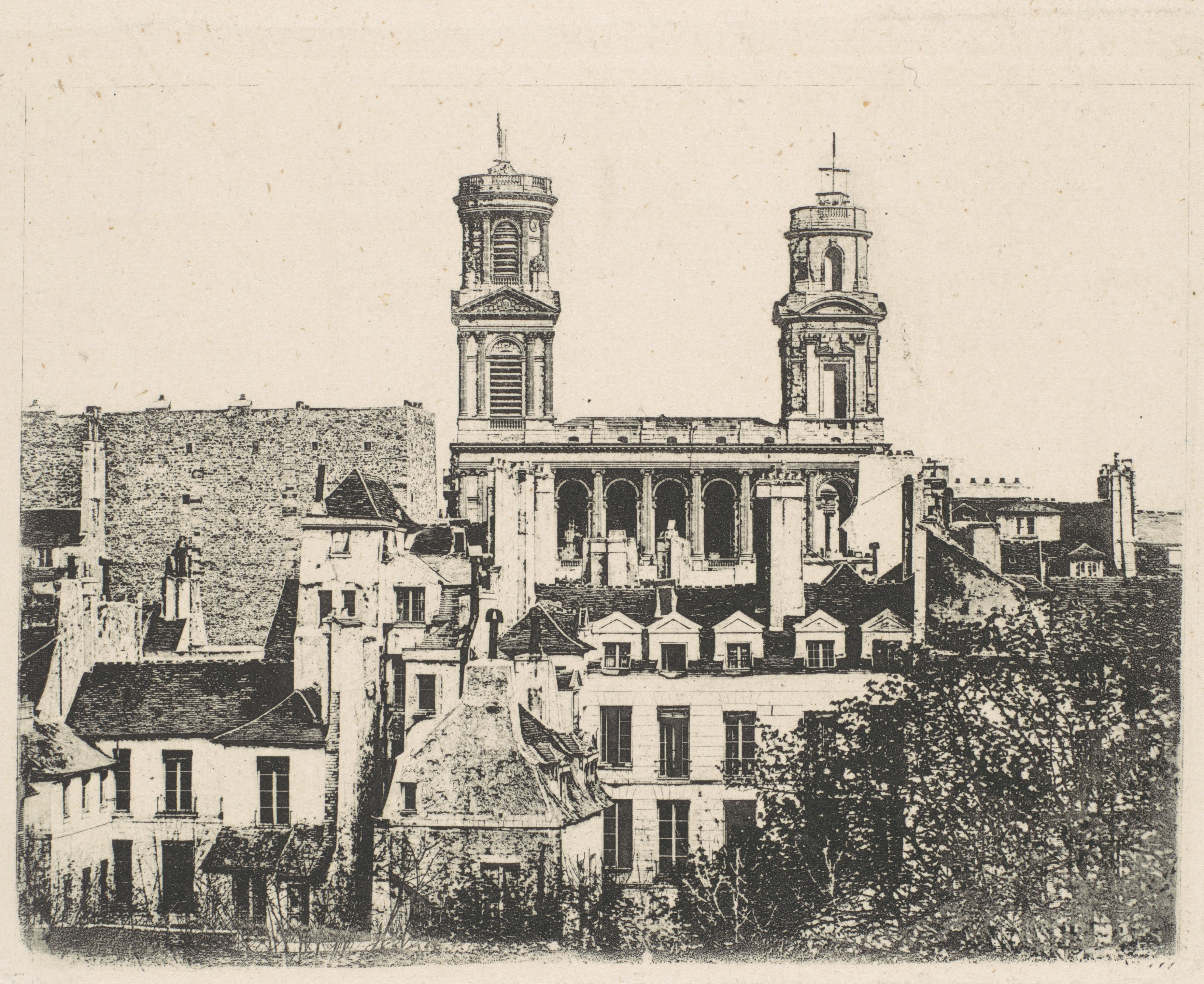 Unlike William Henry Fox Talbot’s paper negative process, which allowed for multiple positives to be made from the same negative, the daguerreotype process produced only a single example with each use. In response to this limitation, several processes were developed to reproduce daguerreotypes in ink. Hippolyte Fizeau, a scientist and daguerreotypist, devised a method for etching directly into the copper daguerreotype plate, which created a printing plate but destroyed the daguerreotype in the process. The plate could then be used to make multiple prints on paper in permanent ink. The process was not perfect, however, and the resulting prints often looked primitive compared to the refined surface and tonal depth of the original daguerreotype. Nevertheless, this print by Fizeau possesses an impressive amount of detail, from the maze of lines in the stone-and-brick walls to the tiny tiles in the roofs. Saint-Sulpice was one of Fizeau’s favorite subjects, in part because it was close at hand: this view was probably taken from his own rooftop. By lugging his heavy camera up the stairs, Fizeau brought photography out of the studio and into the world—and, through his ink prints, helped introduce the world to photography.